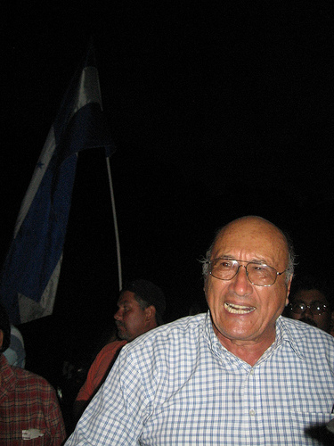 Photograph of Carlos Humberto Reyes, leader of Honduran trade union STIBYS, a coordinator of the Frente Nacional contra el Golpe de Estado en Honduras, and independent candidate in the 2009 Honduran presidental election, by journalist Sandra M. Cuffe (e.g. ).